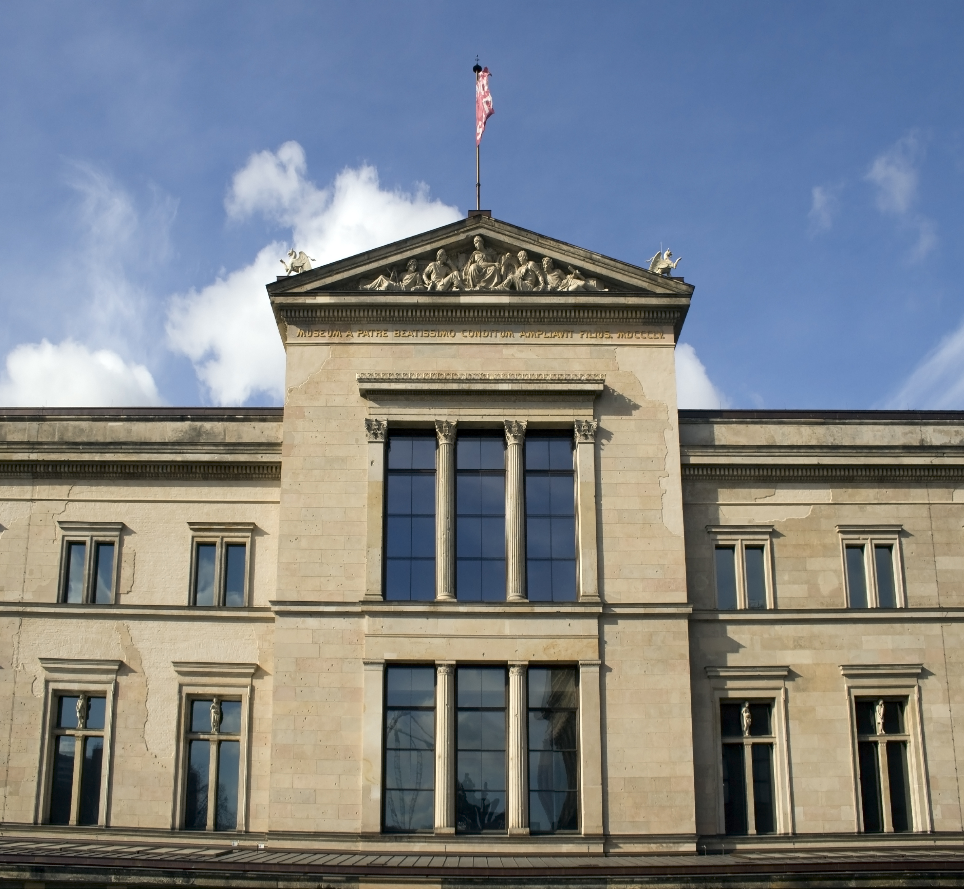 Central part of the front of the Neues Museum above the entrance